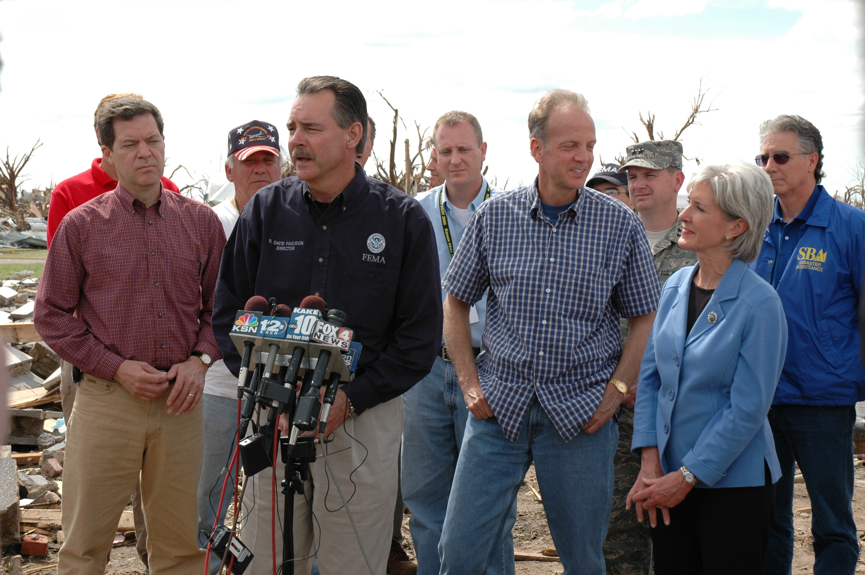 FEMA Administrator R. David Paulison briefed media on FEMA's role in response and recovery for Greensburg the small Kansas town torn apart Friday (May 4, 2007) by an F5 tornado. Flanking Paulison is Sen. Sam Brownback, Rep. Todd Tiahrt, and Kansas Gov. Kathleen Sebelius.